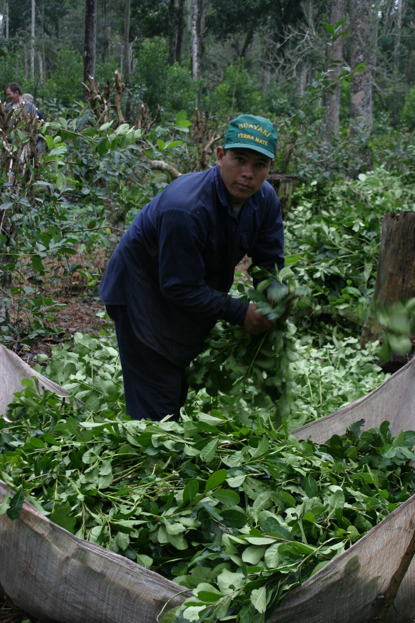 Harvesting Rainforest Grown Yerba Mate.